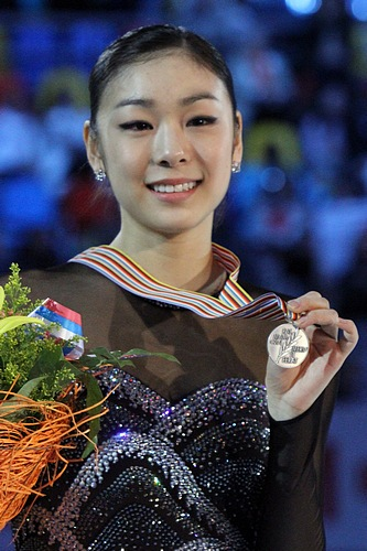 Yuna Kim at the 2011 World Championships